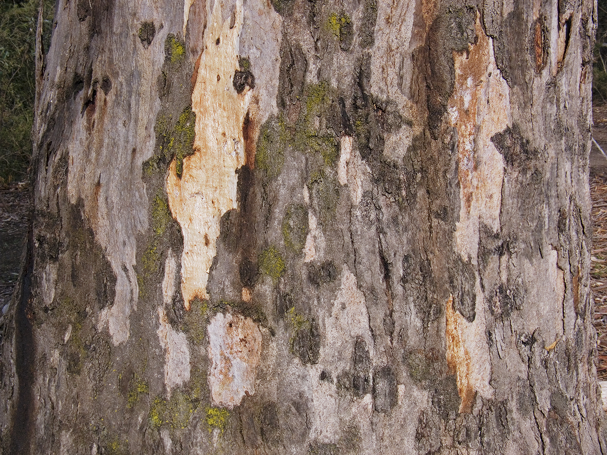 River red gum trunk/bark detail (Eucalyptus camaldulensis)